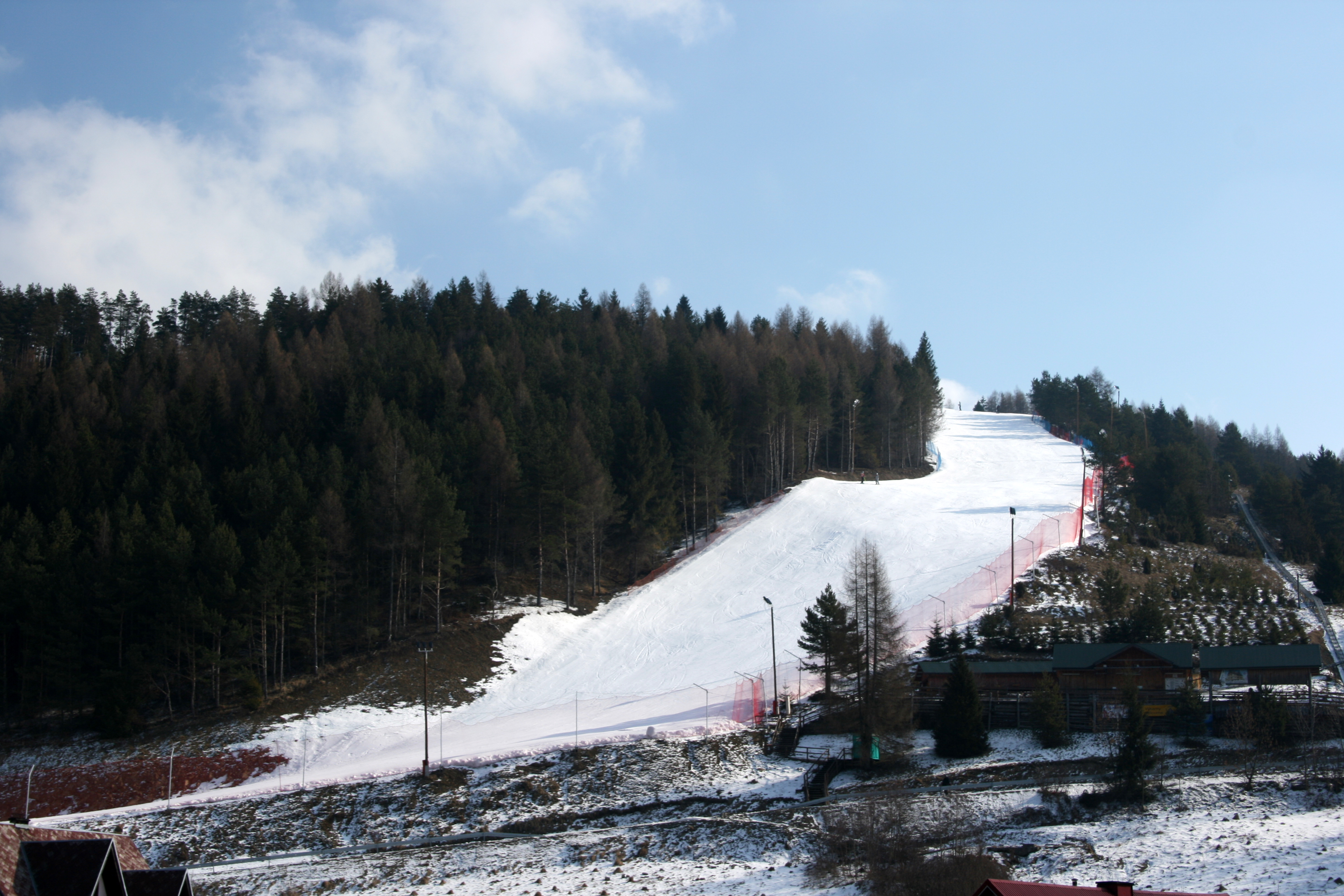 Czorsztyn-Ski ski area in Kluszkowce - ski trail no 6